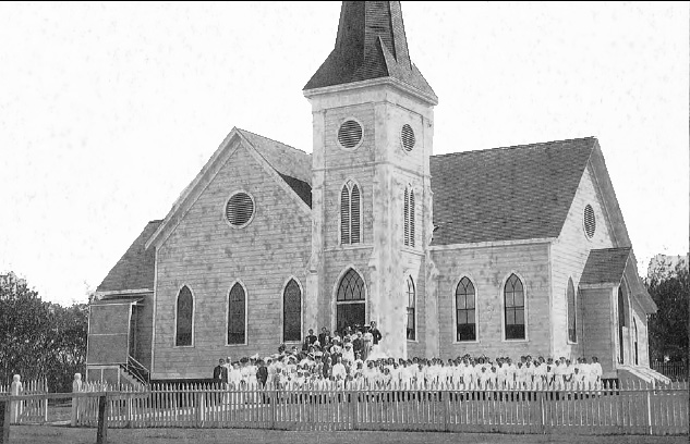 This wooden structure was built in 1889 on the foundation of the Paliuli sugar mill, donated by Henry P. Baldwin, founder of Alexander & Baldwin. It was the second building used by the Makawao Union Church (originally founded by Jonathan Smith Green). it was replaced by a stone veneer church in 1916-1917.